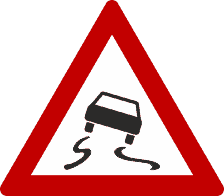 Diagram of road signs of Luxembourg